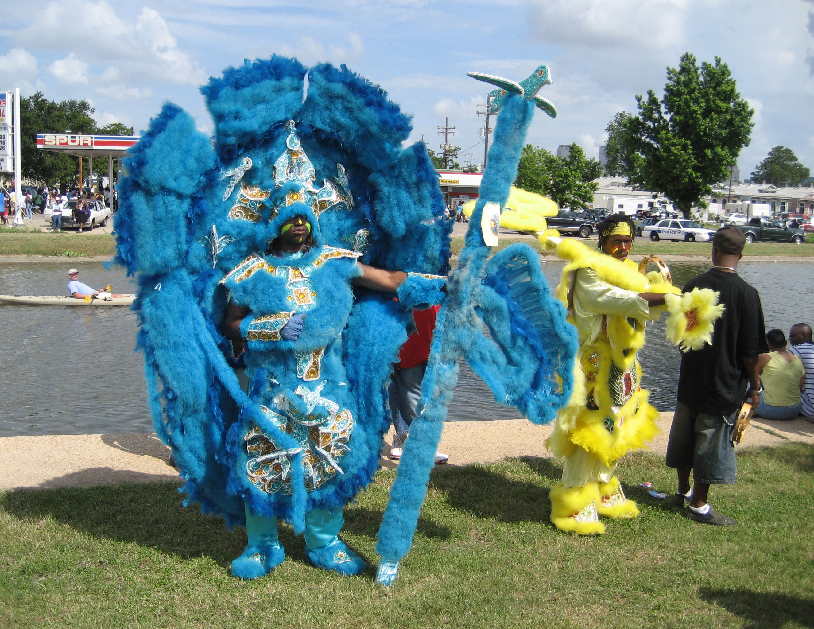 Mardi Gras Indian "Big Chief Thunder" Smith by Bayou St. John, New Orleans. Bayou St. John Indians "Super Sunday" 2007